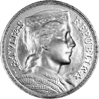 More about this coin